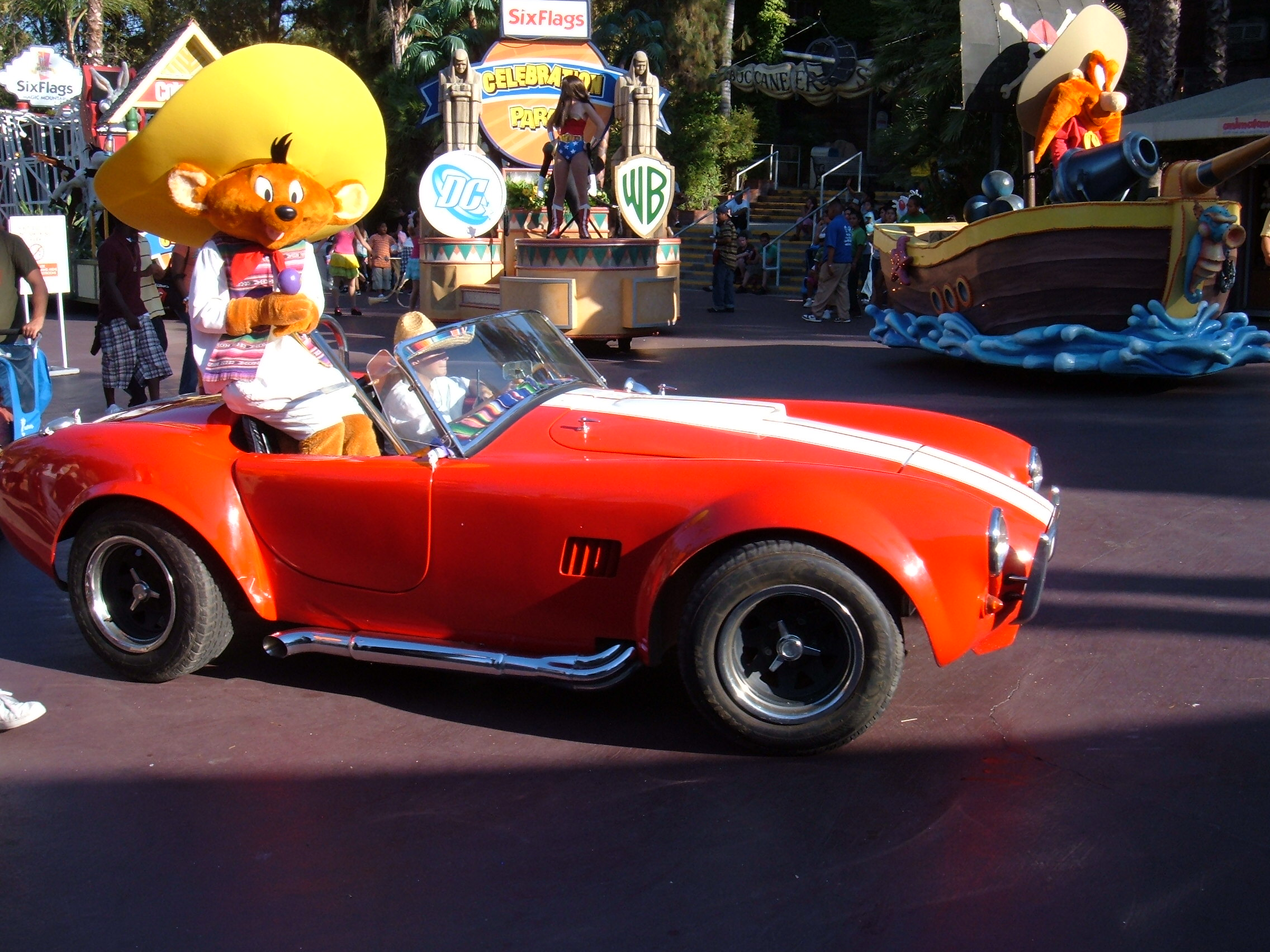 Speedy Gonzales at the Celebration Parade at Six Flags Magic Mountain in Ventura, California.